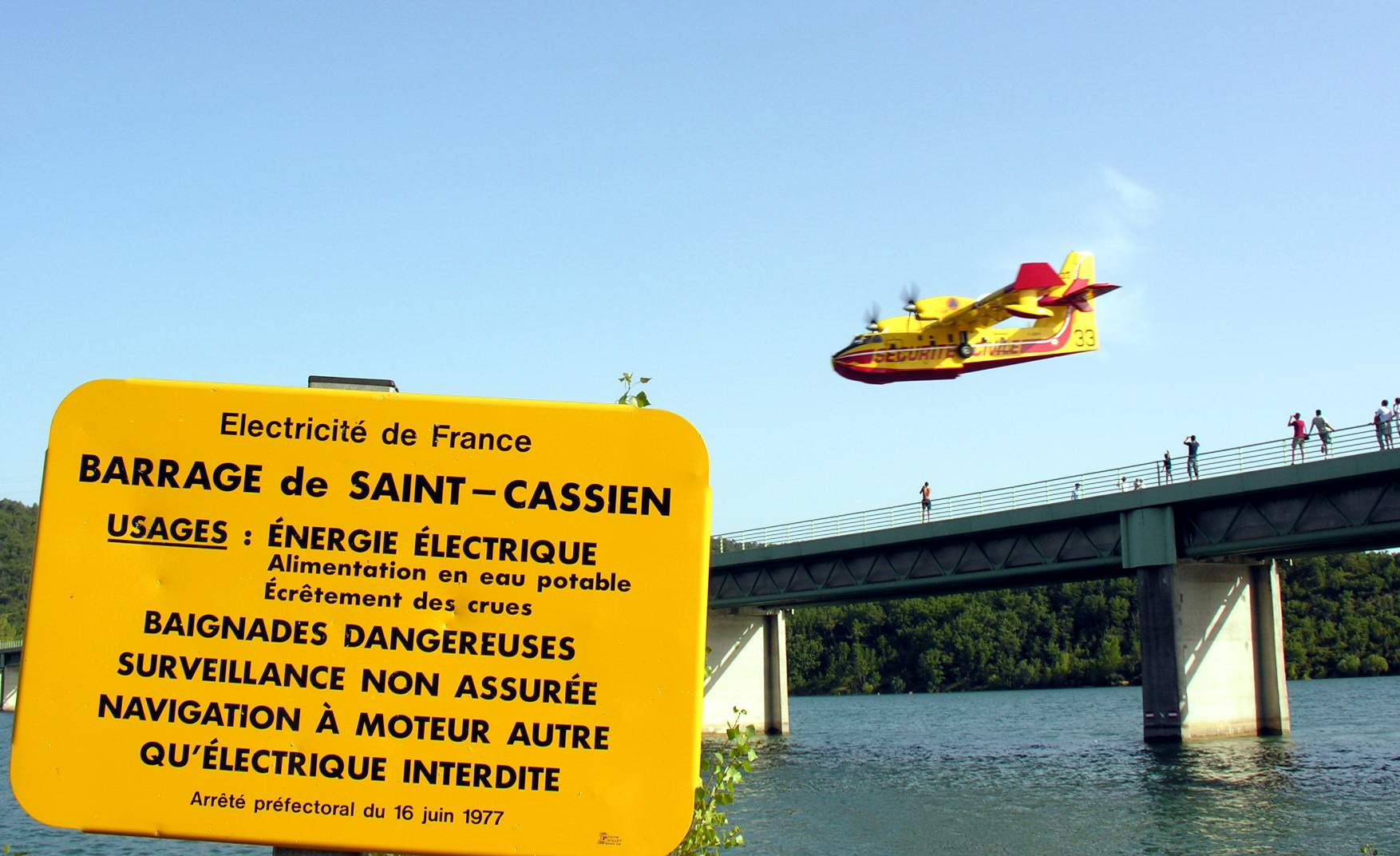 Canadairs working on Saint-Cassien's lake